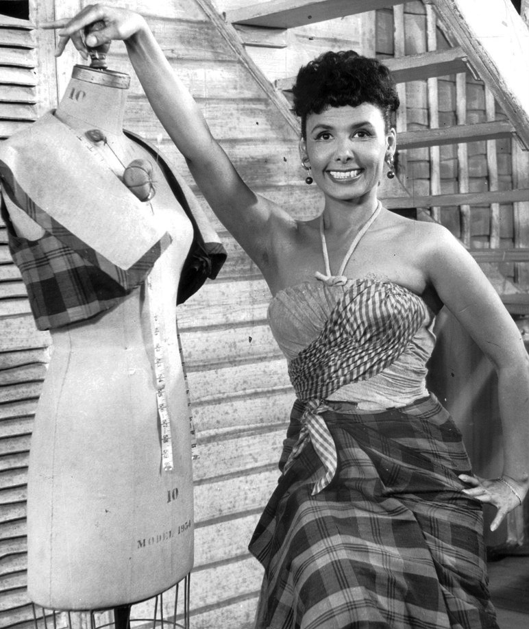 Publicity photo of Lena Horne from her own stage show Nine O'Clock Revue.